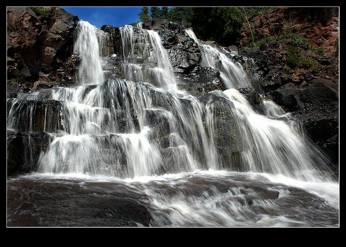 Gooseberry Falls, Gooseberry Falls State Park, Two Harbors, Minnesota, USA